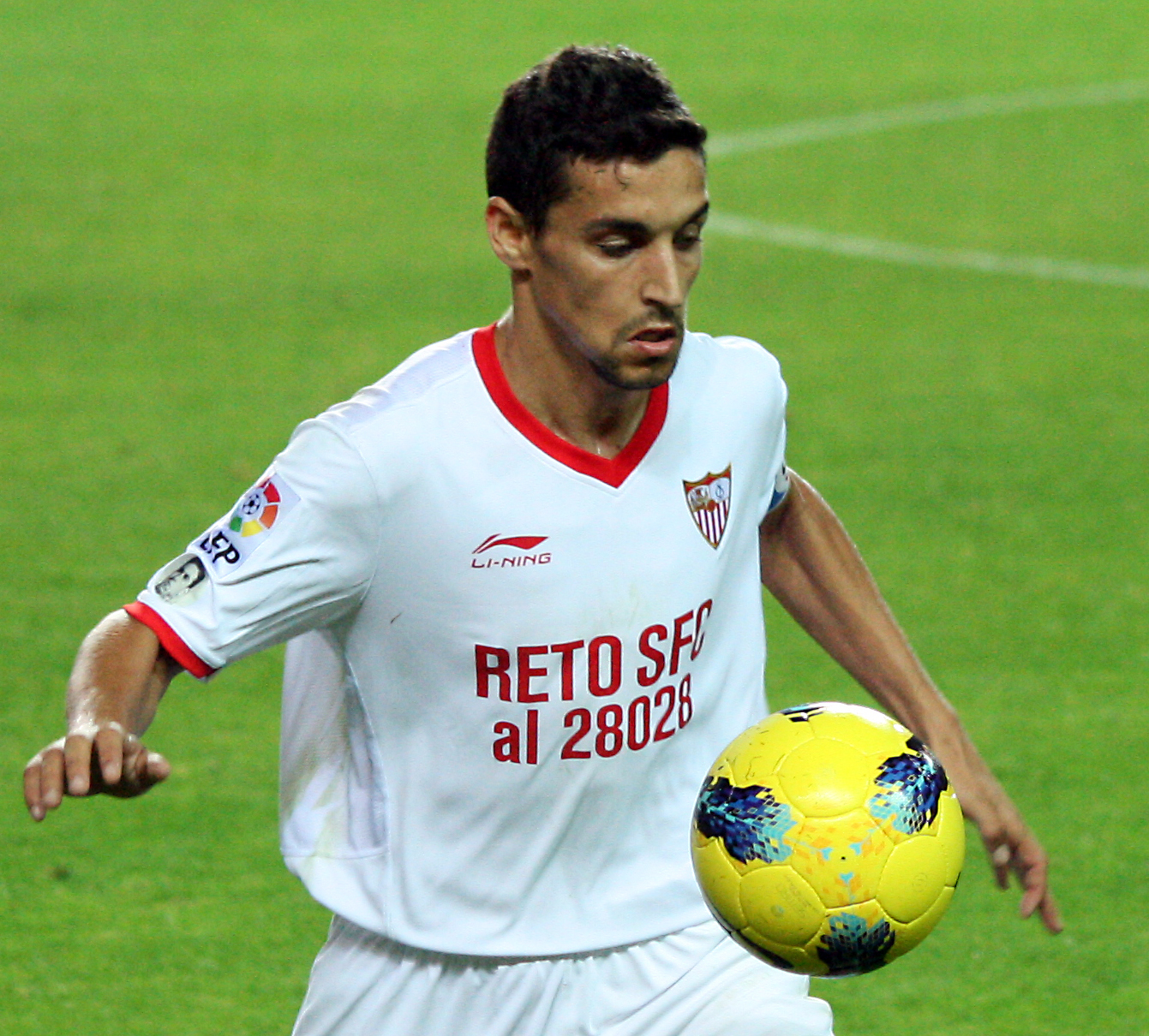 Jesús Navas, Spanish footballer who plays for Sevilla Fútbol Club.